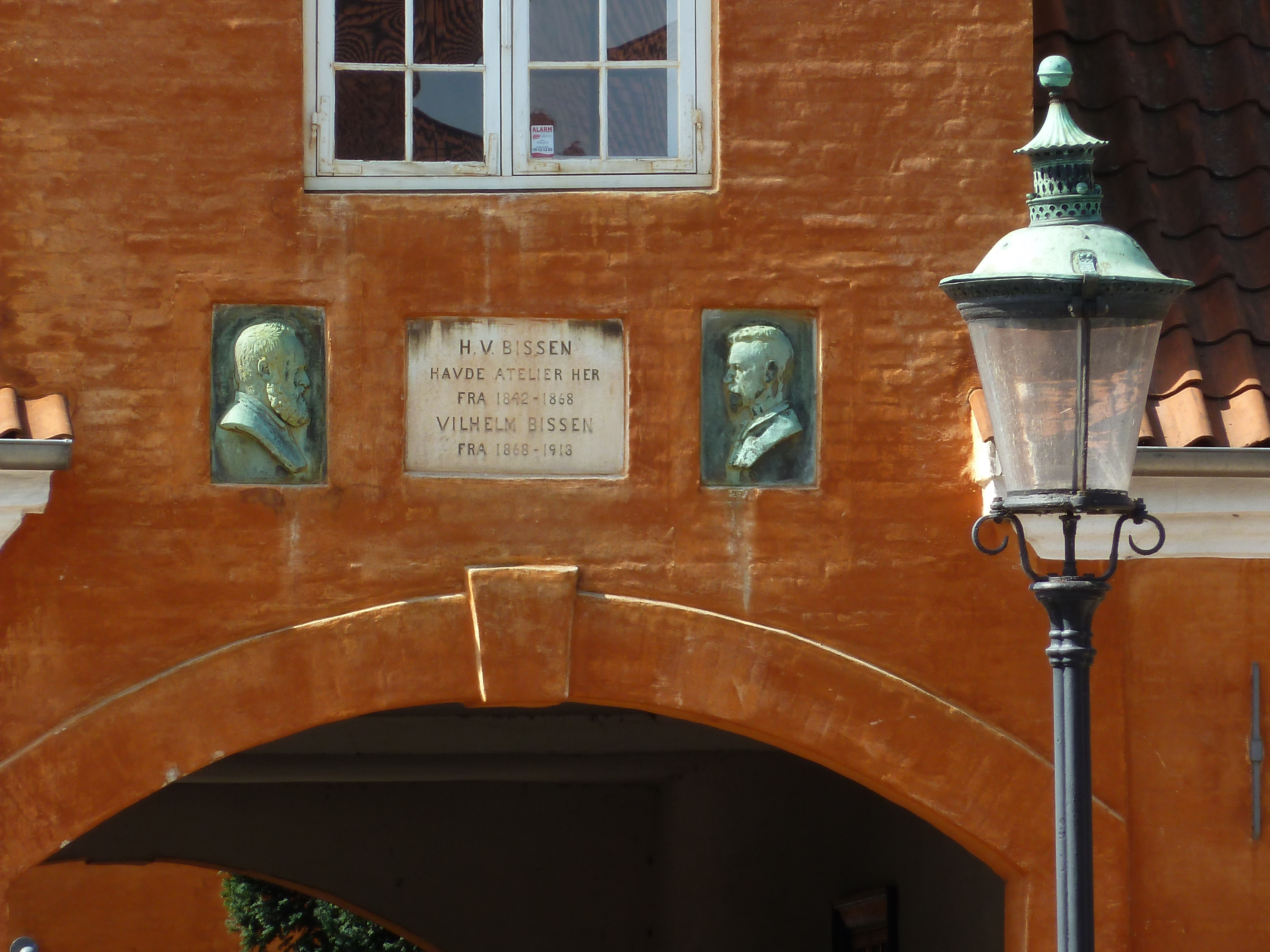 The plaque conmemorating H. W. and Vilhelm Bissen above the gate at Materialgården in Copenhagen, Denmark